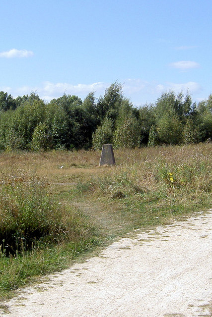 Former Colliery shaft marker alongside the Trans Pennine Trail. Concrete trig point like marker at the shaft of the former coal mine' Cadeby Colliery'.